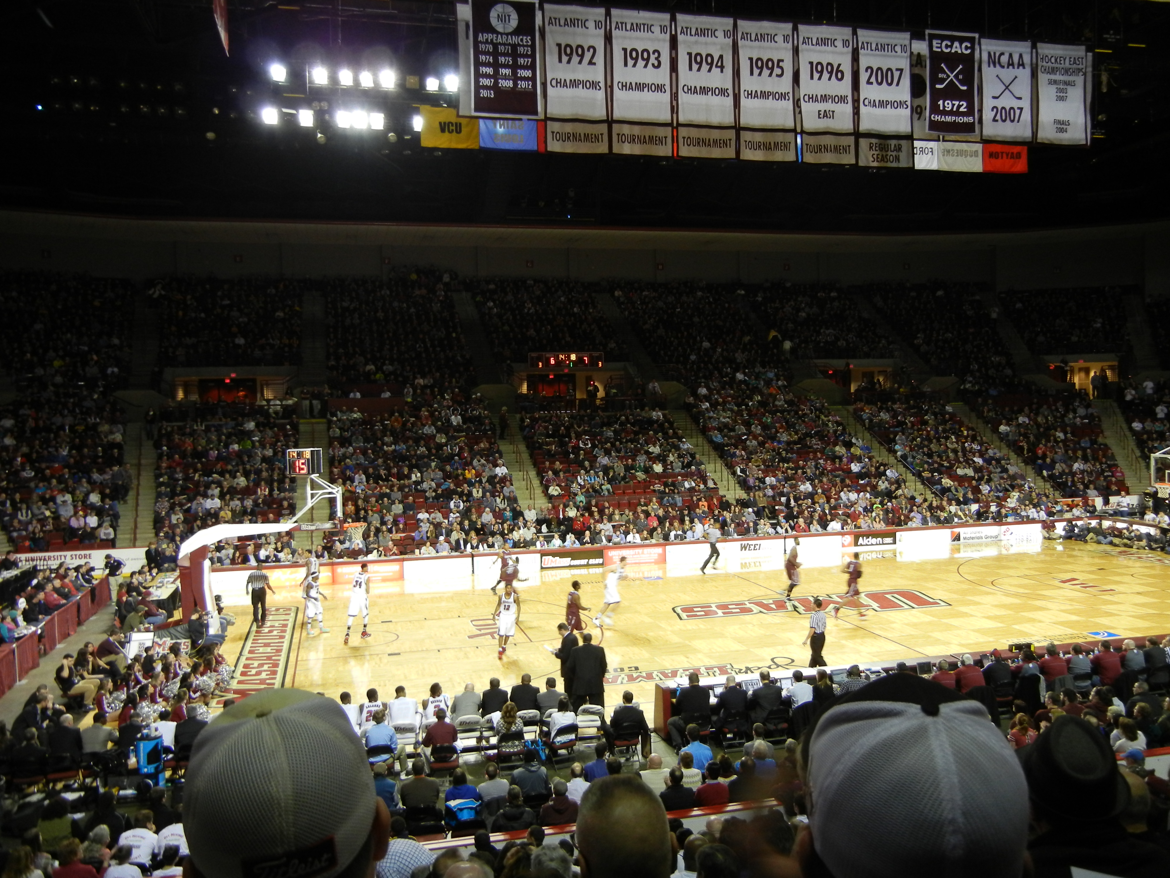 Interior of Mullins Center on campus of UMass during basketball game on January 26, 2014